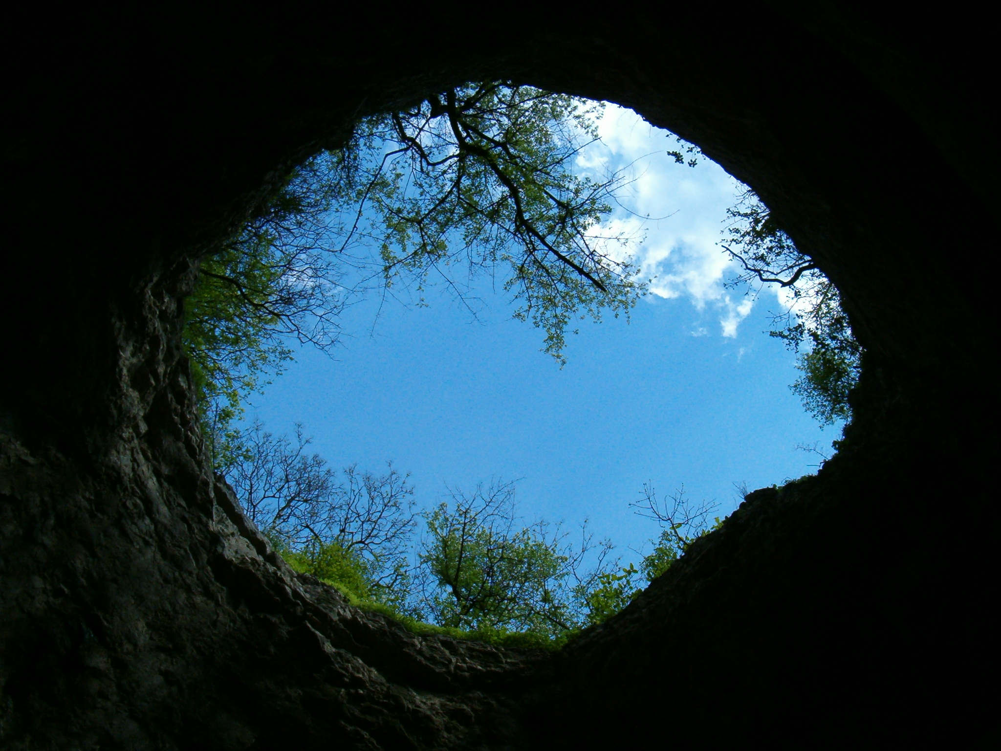 The cave of 'Szelim' in the Gerecse Mts. Natural mouth on the top of the cave enclosed with bushy forest. (Hungary)